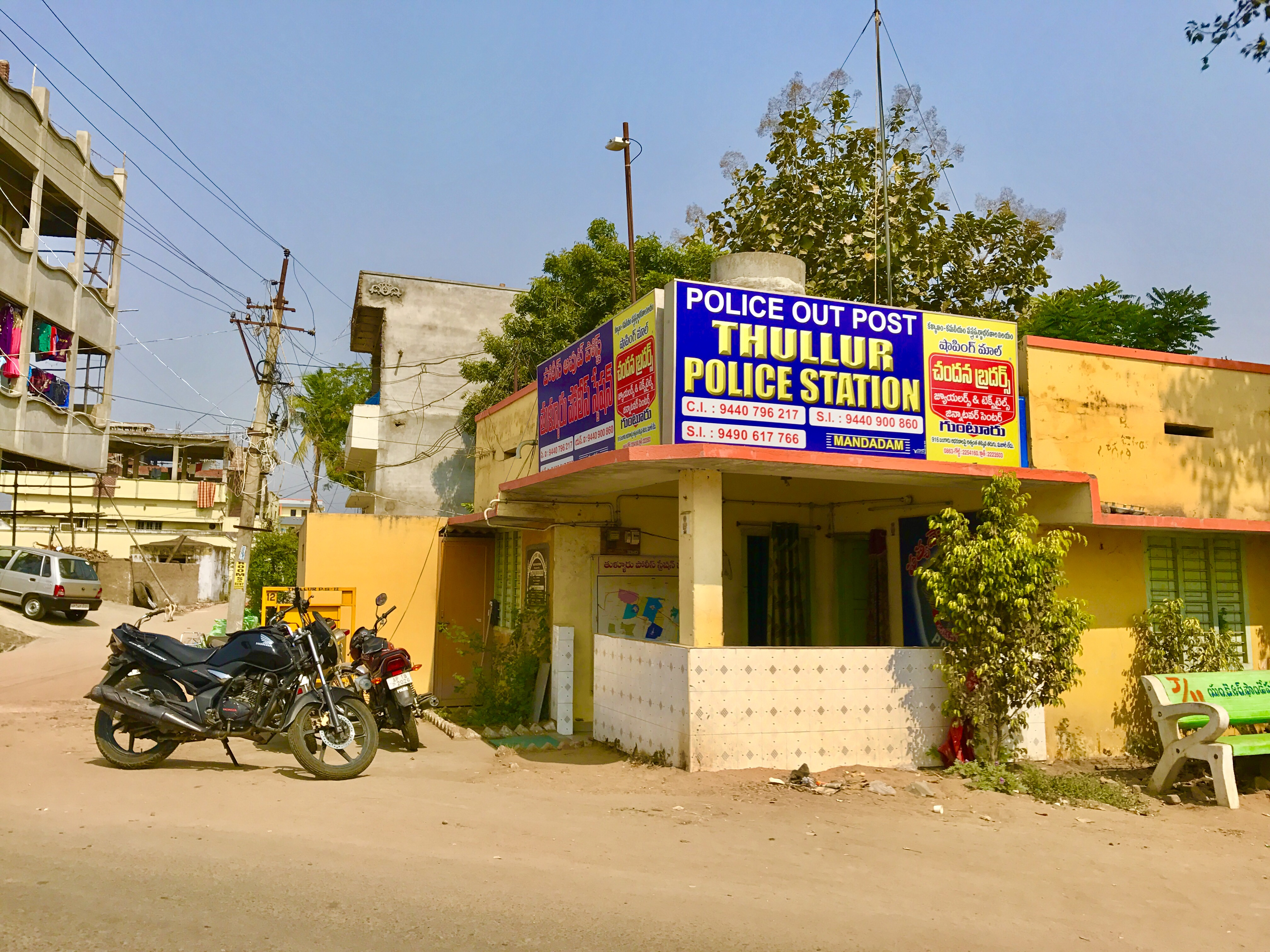 Mandadam Police Station